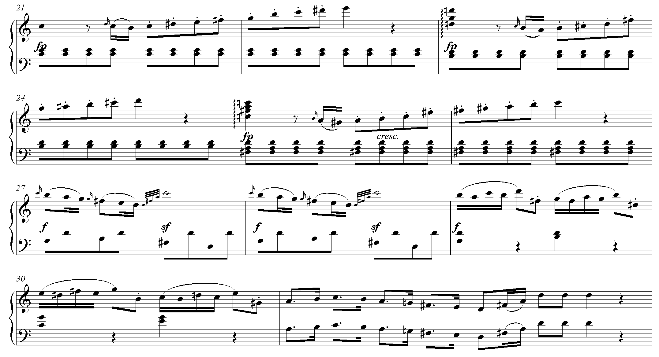 Transition from first to second theme in Mozart's Sonata in C Major, K. 309, I, measures 21-32.